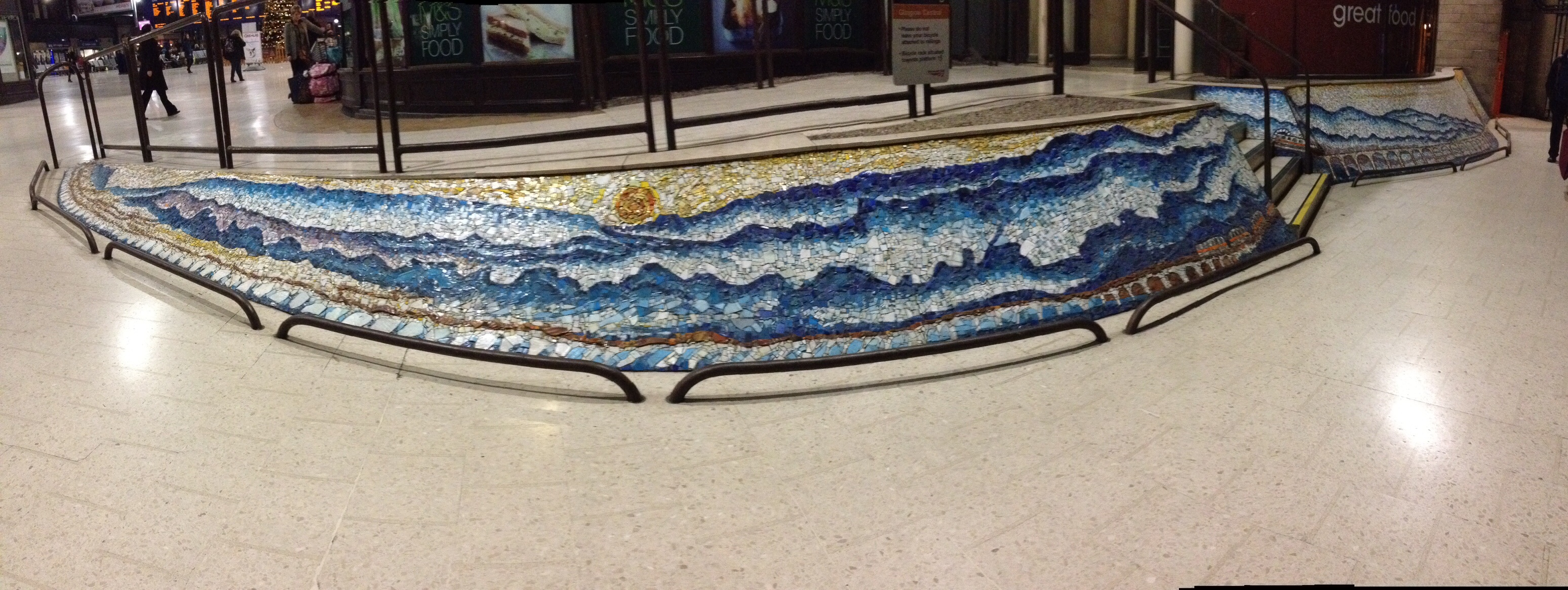 Commissioned by ScotRail in 1990. On permanent display in Glasgow Central Station